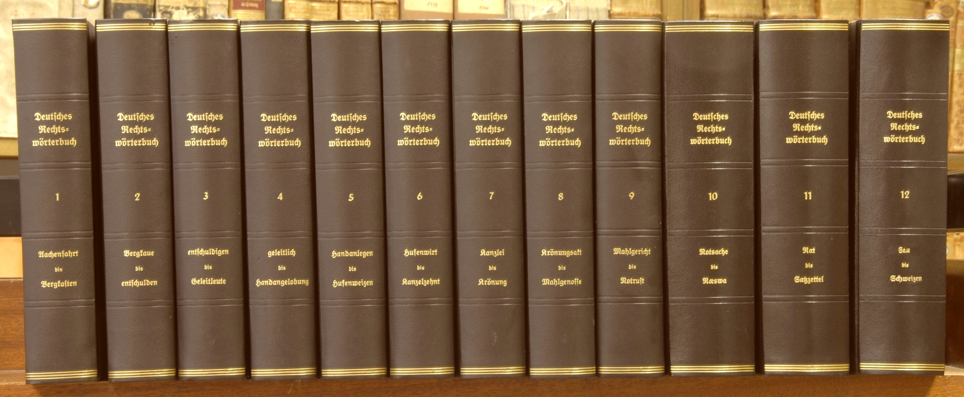 The "Deutsches Rechtswoerterbuch" (DRW, Dictionary of Historical German Legal Terms) comprises 12 volumes with 90,000 articles from A to S so far. Since 1999 the DRW has gradually been provided with an appearance on the world-wide web. Today all completed articles of the DRW are available to the public on its website (